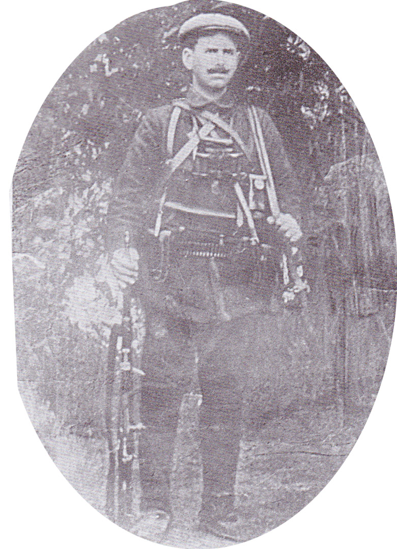 bulgarian revolutionary/ies